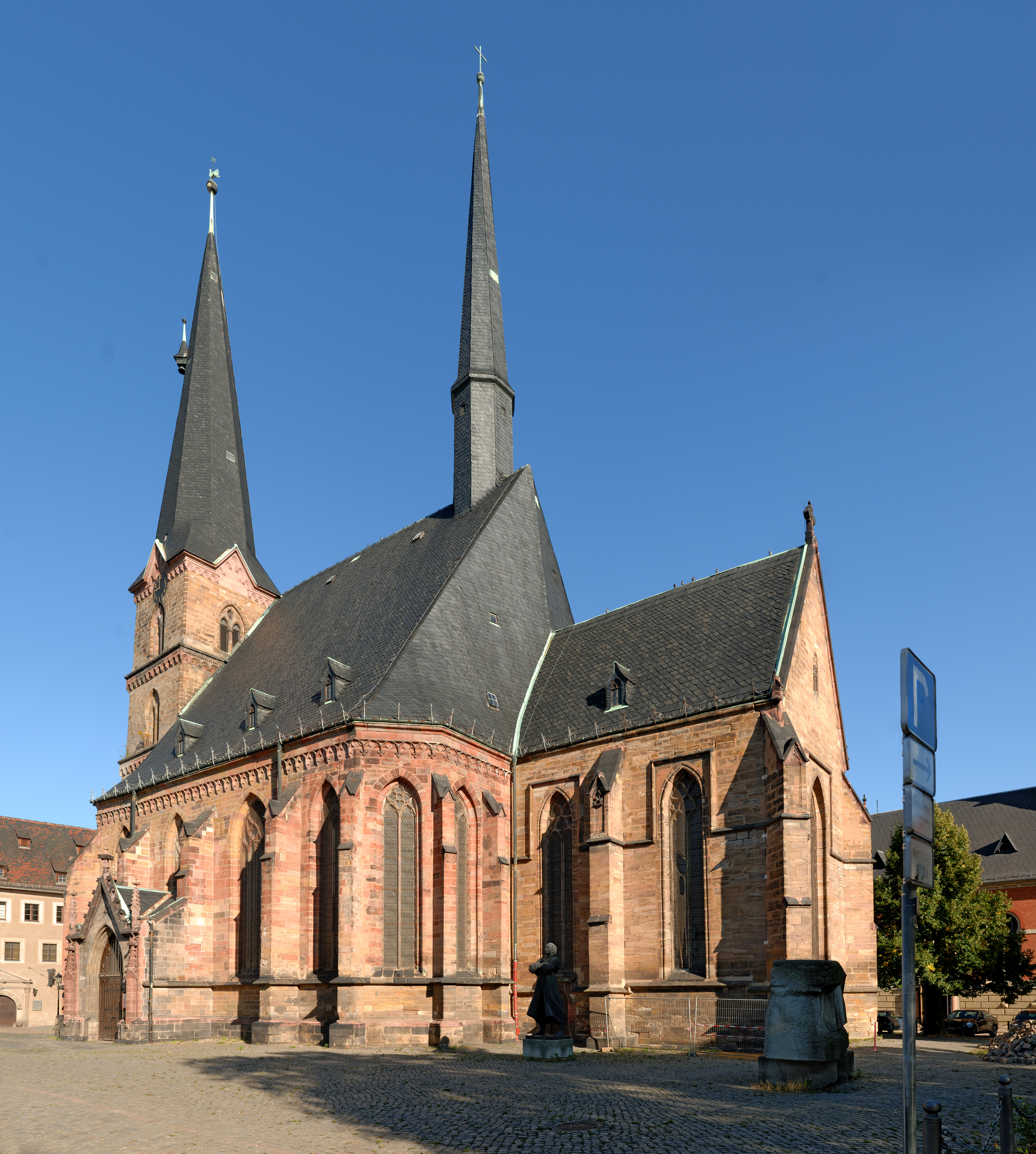 This image shows the church "Katharinenkirche" in Zwickau, Germany. It is a eleven segment panoramic image.